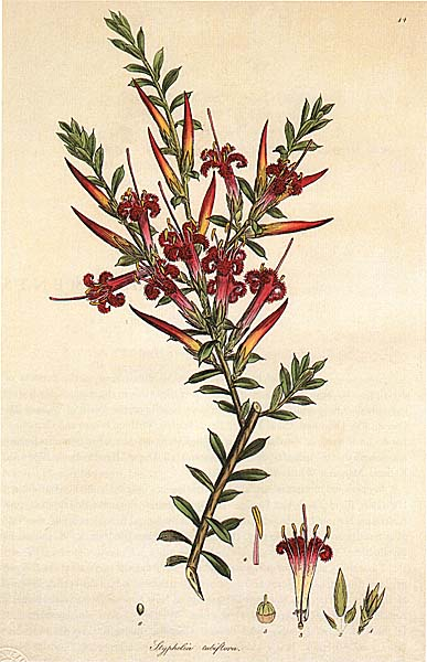 Styphelia tubiflora (Red Five-corners)artist: James Sowerby (1757-1822) from: 'A Specimen of the Botany of New Holland' (1793-1795) by J.E.Smith Published as: Styphelia tubiflora